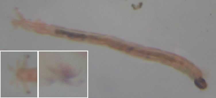 Chironomidae larva from a two week old pond in Munich, Germany. The animal was freely swimming in the water, moving snake-like and fast, thus images are somewhat blurry. It is about 1 cm long, the head is right. The magnified tail details are from other images of the same animal.